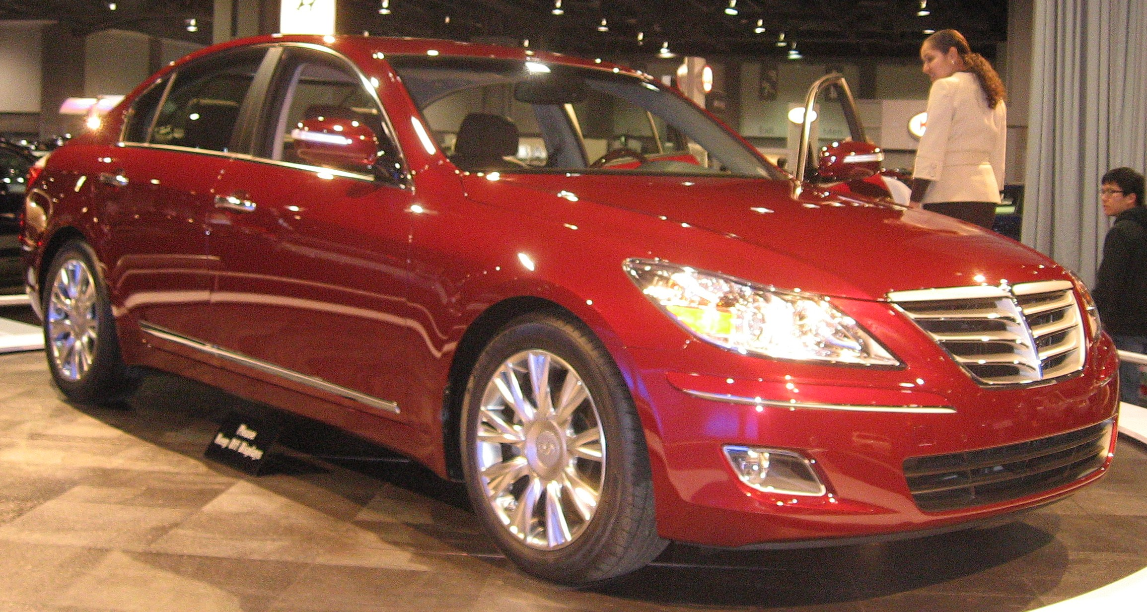 2009 Hyundai Genesis photographed at the 2008 Washington DC Auto Show.